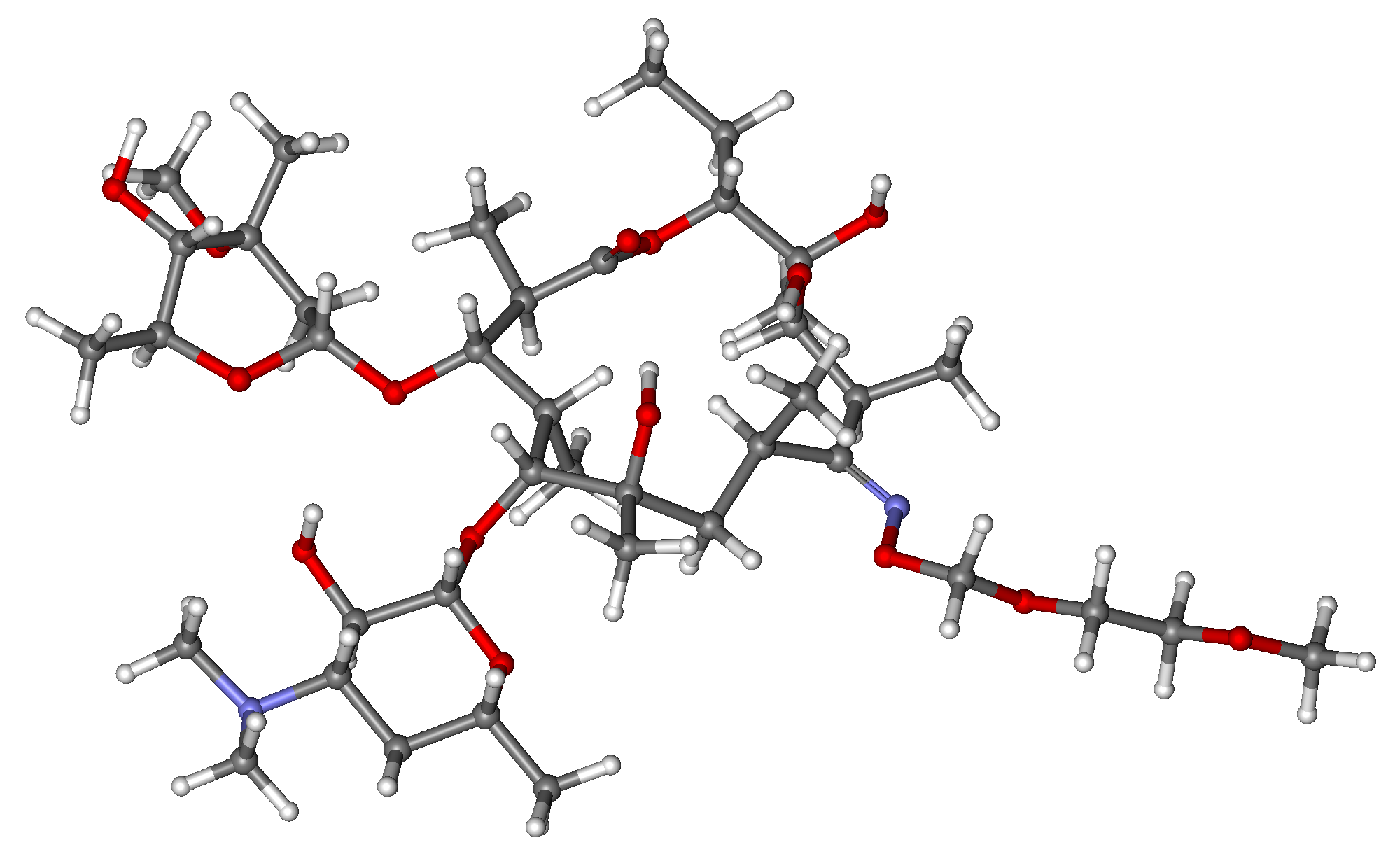 Ball-and-stick model of roxithromycin. The structure is taken from ChemSpider. ID 5291557